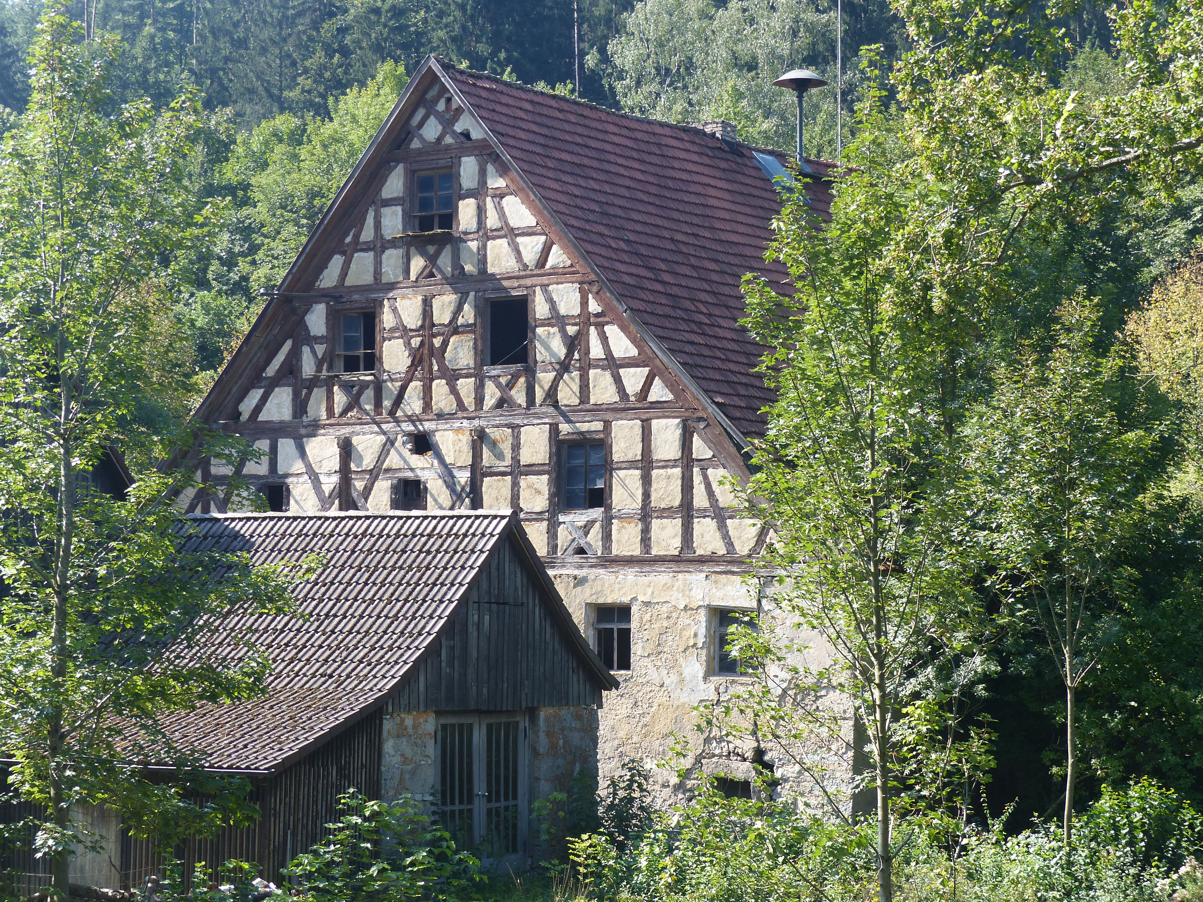 The residential building of the mill of Bärenthal, a district of the municipality of Egloffstein.